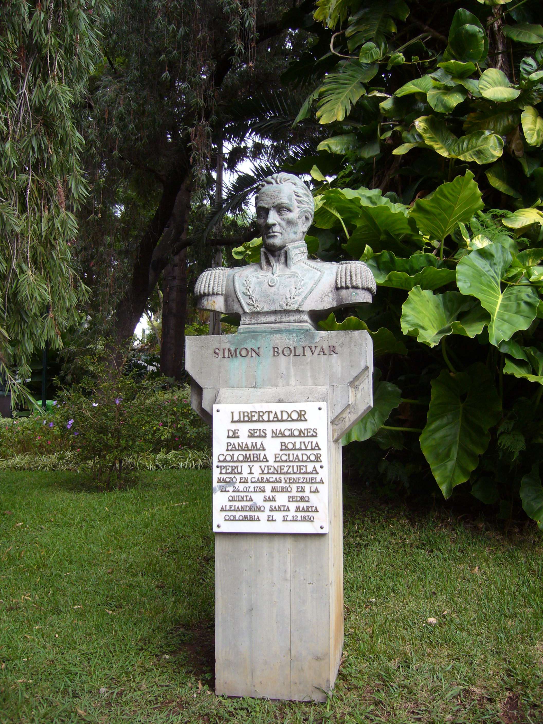 Statue of Simon Bolívar in Funchal (Madeira).